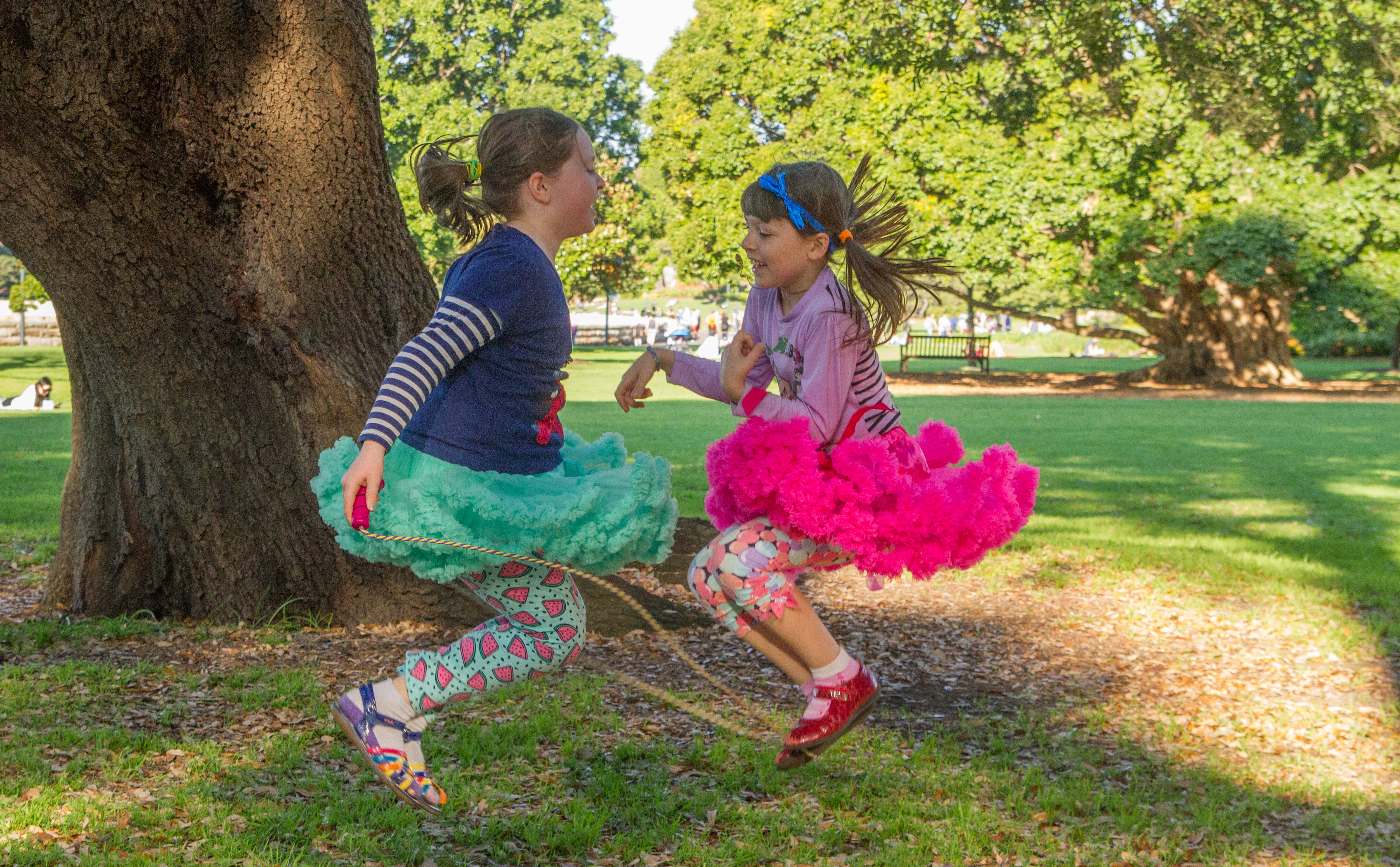 Two girls playing skipping rope